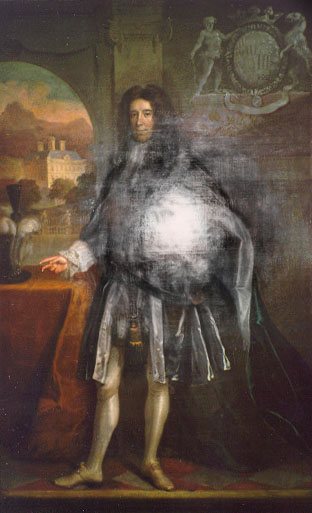 John Murray, 1st Duke of Atholl (1660-1724), by Thomas Murray, signed and dated 1705. A view of old Dunkeld House can be seen through the arch in the background. Dunkeld House, built by Sir William Bruce in 1676-84 for the 1st Marquis of Atholl. Demolished in 1827, this was one of Scotland's major 17th-century mansions.